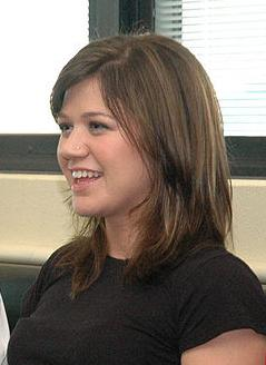 RCA recording artist and American Idol winner Kelly Clarkson in the Dallas/Fort Worth metroplex Babe Laufenberg receive their safety brief prior to taking a ride with the U.S. Navy's flight demonstration team the Blue Angels on Joint Reserve Base Naval Air Station Fort Worth, Texas, May 10, 2006. There is also a version cropped to just Kelly Clarkson.